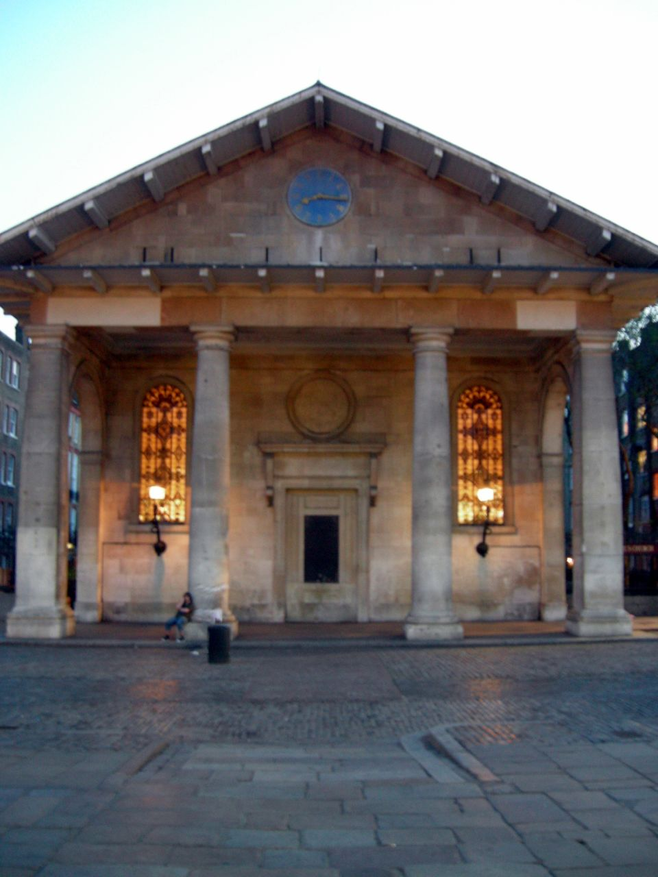 St. Paul's Church, Covent Garden